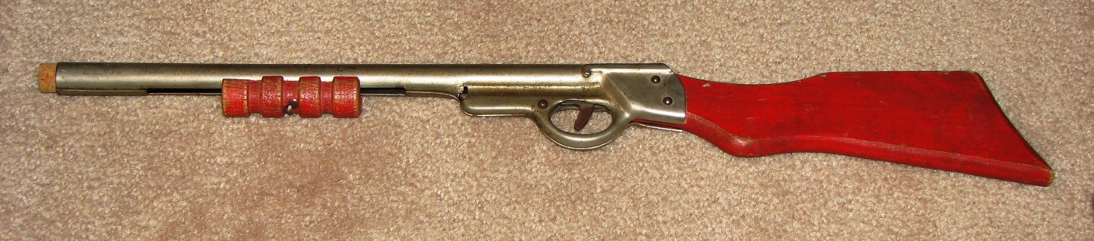 Vintage 1950s Toy Cork Rifle ("Pop Gun") by All Metal Products, Wyandotte, Mich.